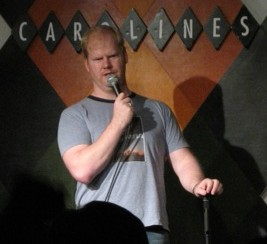 The crowd was horrible, one very drunk black woman would not shut up and kept shouting out "Mhmmm!" and "No you Didn't!" she was finally taken out by the manager after her boyfriend or friend left very embarrassed. There was also this Redneck/boyscout leader father and his kid and they got into a fight with Jim but Jim held his ground and was hilarious about it, he finally just plainly asked if the club was gonna just kick him out and the whole club just applauded, great moment! ^_^ There was also two very drunk corporate parties there to watch, Intel and Citigroup, ugh...